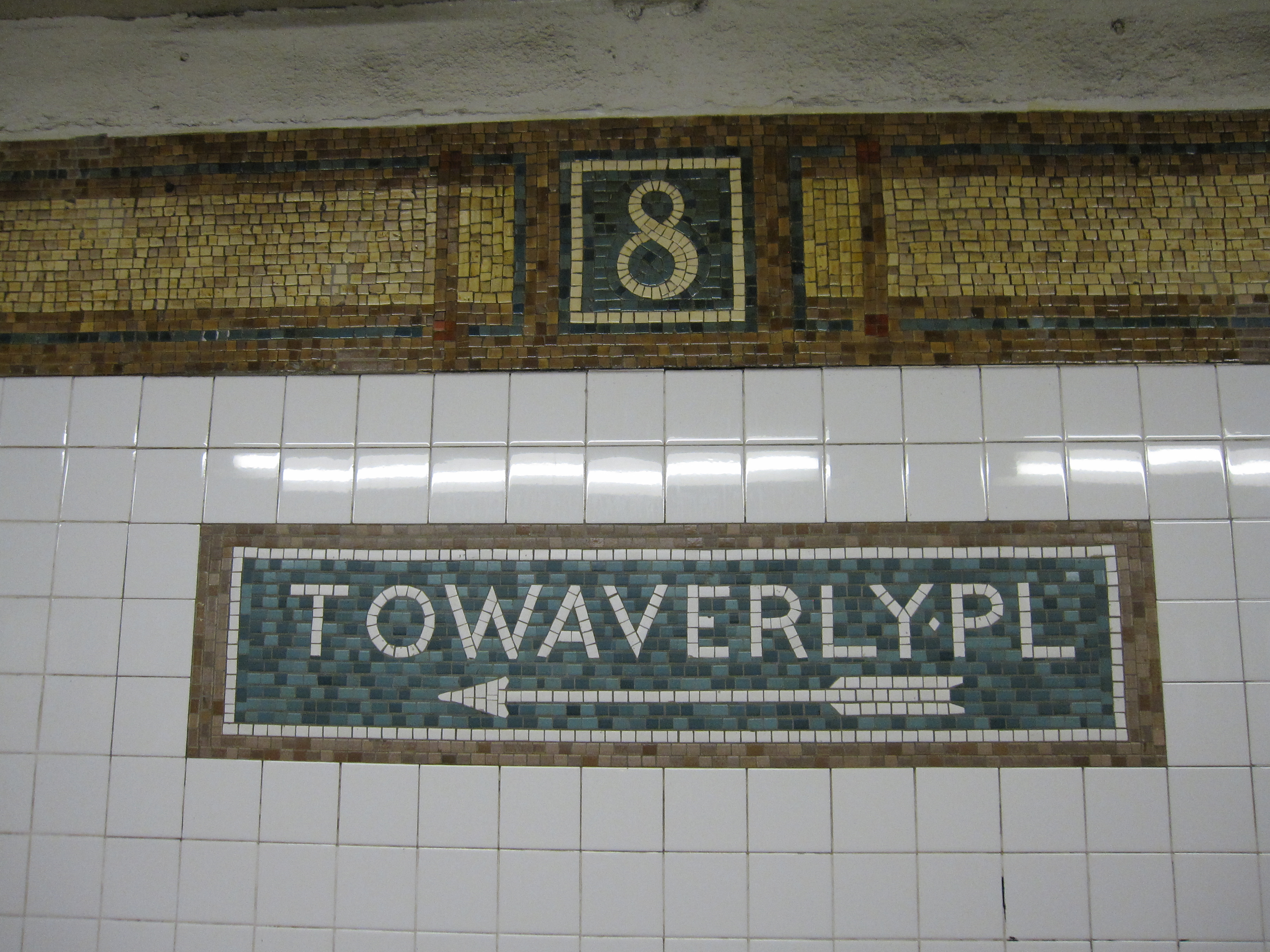 8th Street – NYU (BMT Broadway Line)